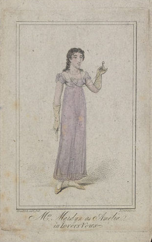 Mrs Mardyn (1789-after 1844) as Amelia in Lovers Vows (1816) by George Cruikshank (1792-1878)